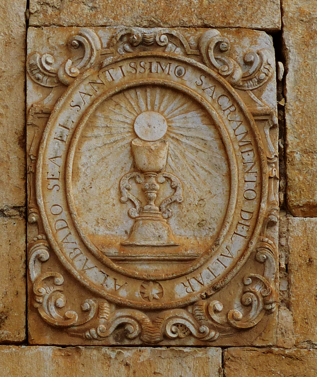 Parroquia de Catí. Detalle de la fachada de la capilla de la Comunión.